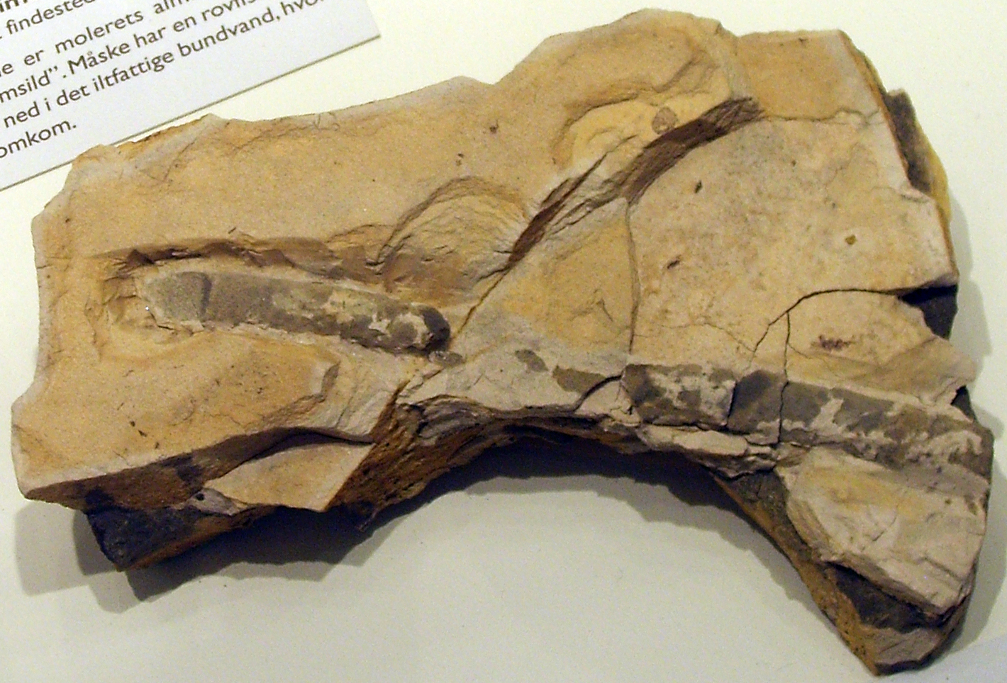 Planolites sp. fossil at the Geological Museum in Copenhagen